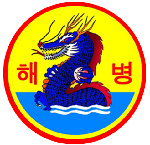 Republic of Korea Marine Corps Blue Dragon Unit(2nd Marine Division) Insignia